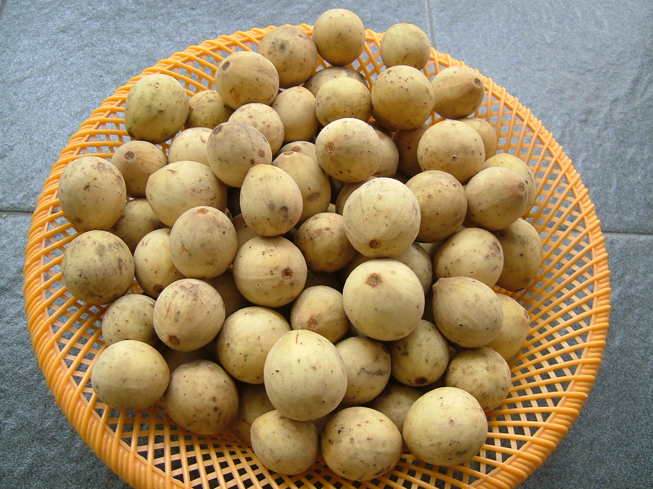 Lansium domesticum is called Duku in bahasa Indonesia. When it is ripe, you see some black spots on the skin.ドゥク、皮を剥くと見た目も味もロンガンににている。